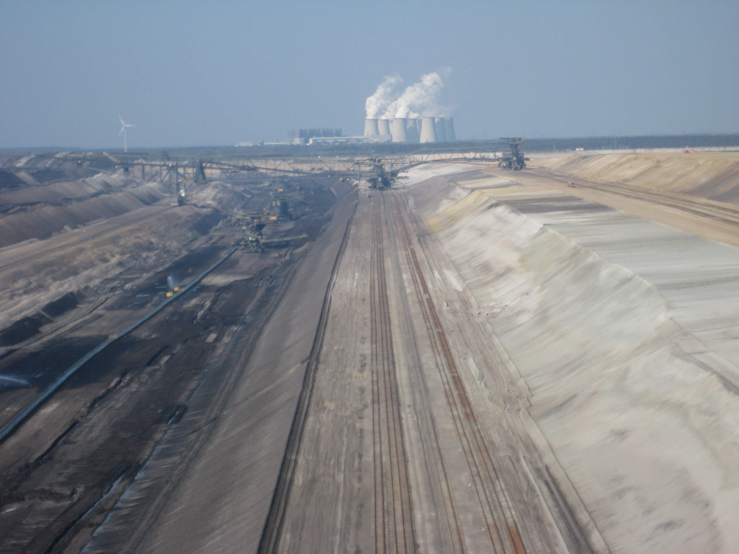 Open pit lignite (coal) mining and power plant in Jänschwalde, Brandenburg, Germany